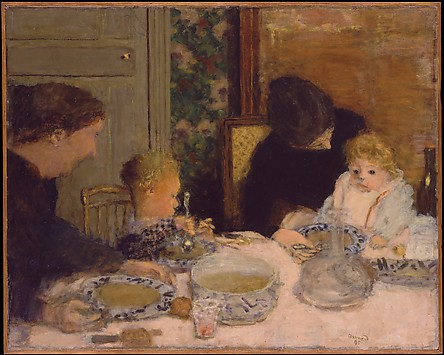 The Children's Meal